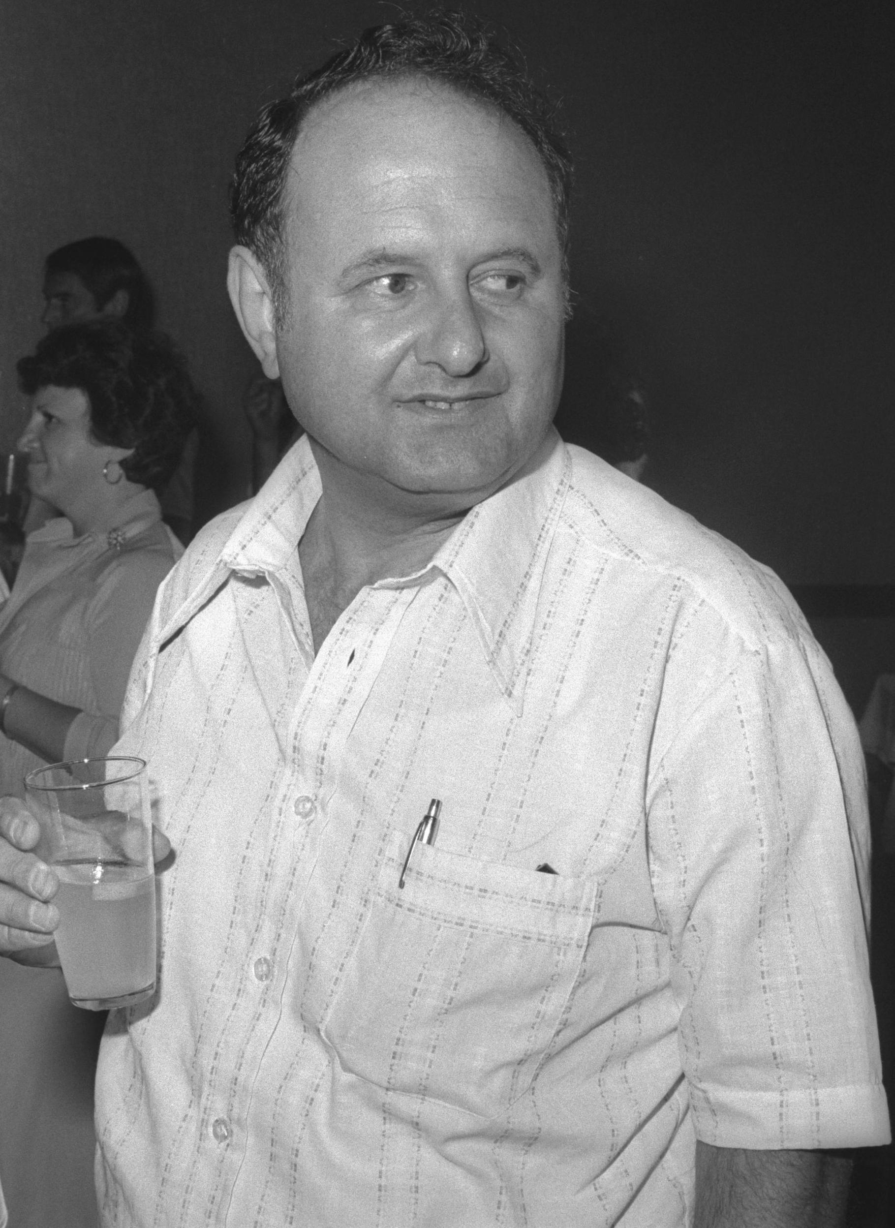 Ilan Har Tuv, the son of Mrs. Dora Bloch, one of the Entebbe hostages murdered in Uganda. אילן הרטוב, בנה של דורה בלוך, מנוסעות המטוס החטוף שנרצחה באוגנדה. Photo: Moshe Milner (1946–) Alternative names Miylner, Moše; Milner, Mosheh; Moshé Milner; Milner, M.; Mîlner, Moše; Miylner, MošehDescriptionIsraeli photographerצלם ישראליDate of birth 1946 Location of birth Germany Authority control : Q28750411 VIAF: 100999744 ISNI: 0000 0001 0804 0507 LCCN: n82072104 GND: 115699732 BNF: 15548788n WorldCat creator QS:P170,Q28750411 , 09/08/1976